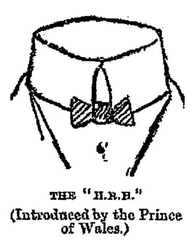 Illustration of an article on collars in a New Zealand newspaper called Otago Witness